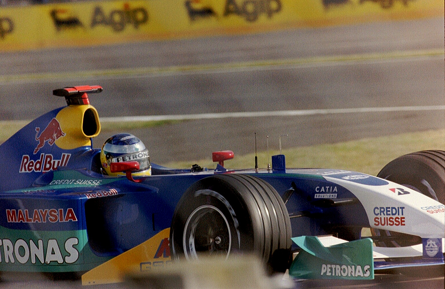 Nick Heidfeld, driving his Sauber Petronas at the 2003 British Grand Prix.